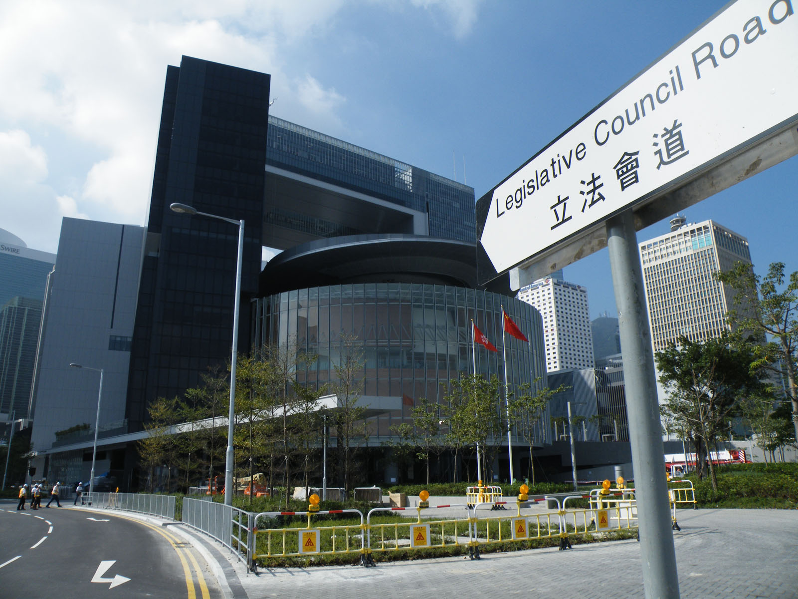 Legislative Council Complex